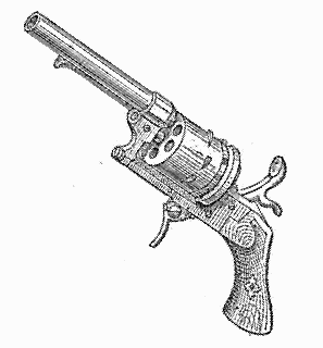 I made this images from another image found in the commons here, and release it to public domain.